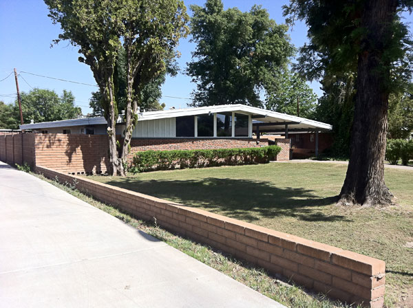 A Town and Country model home in Janet Manor by Ralph Haver AIA in Phoenix, Arizona.